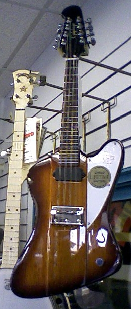 An Epiphone "Mandobird VIII" electric mandolin.